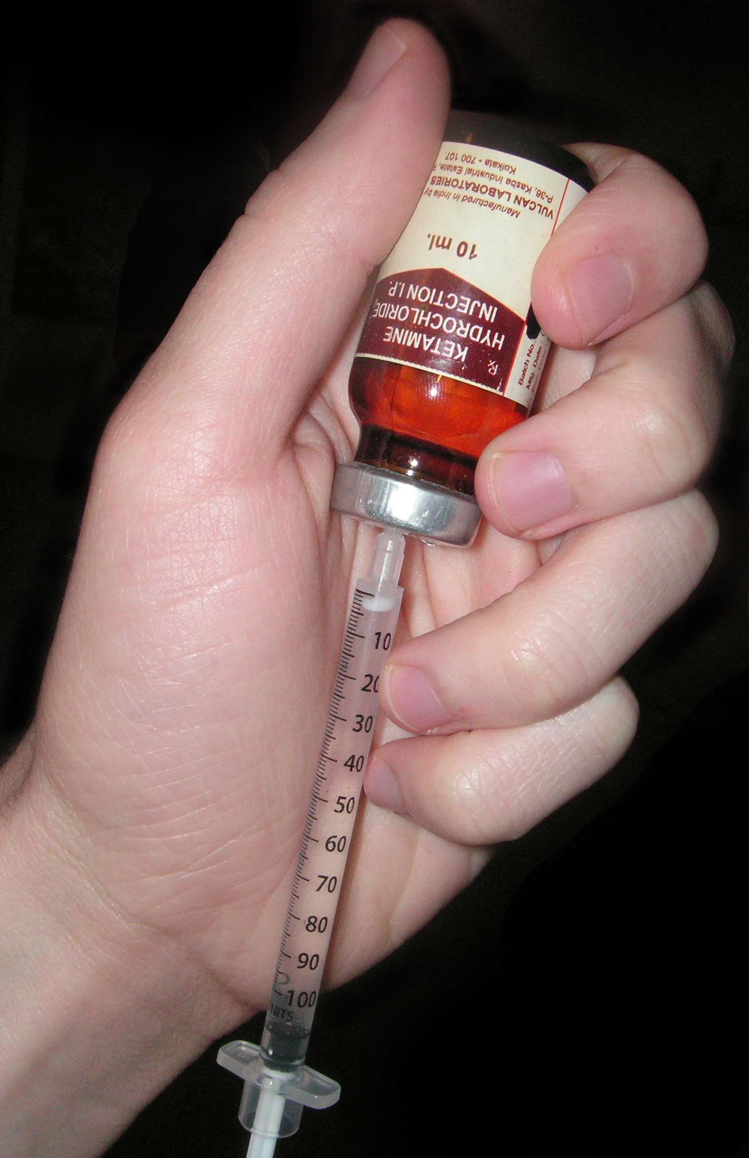 One Cubic Centimeter One Milliliter Fifty Milligrams